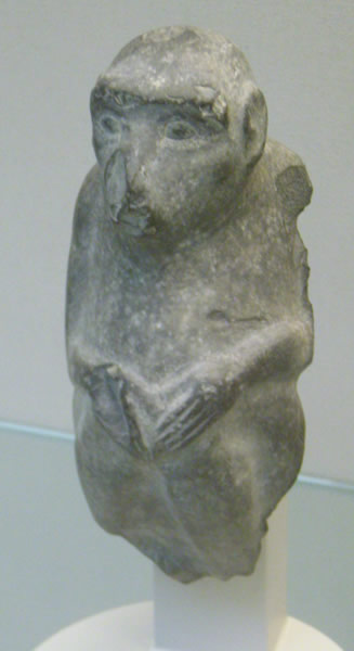 Figure of a monkey, found at Kar Tikulti Ninurta; British Museum